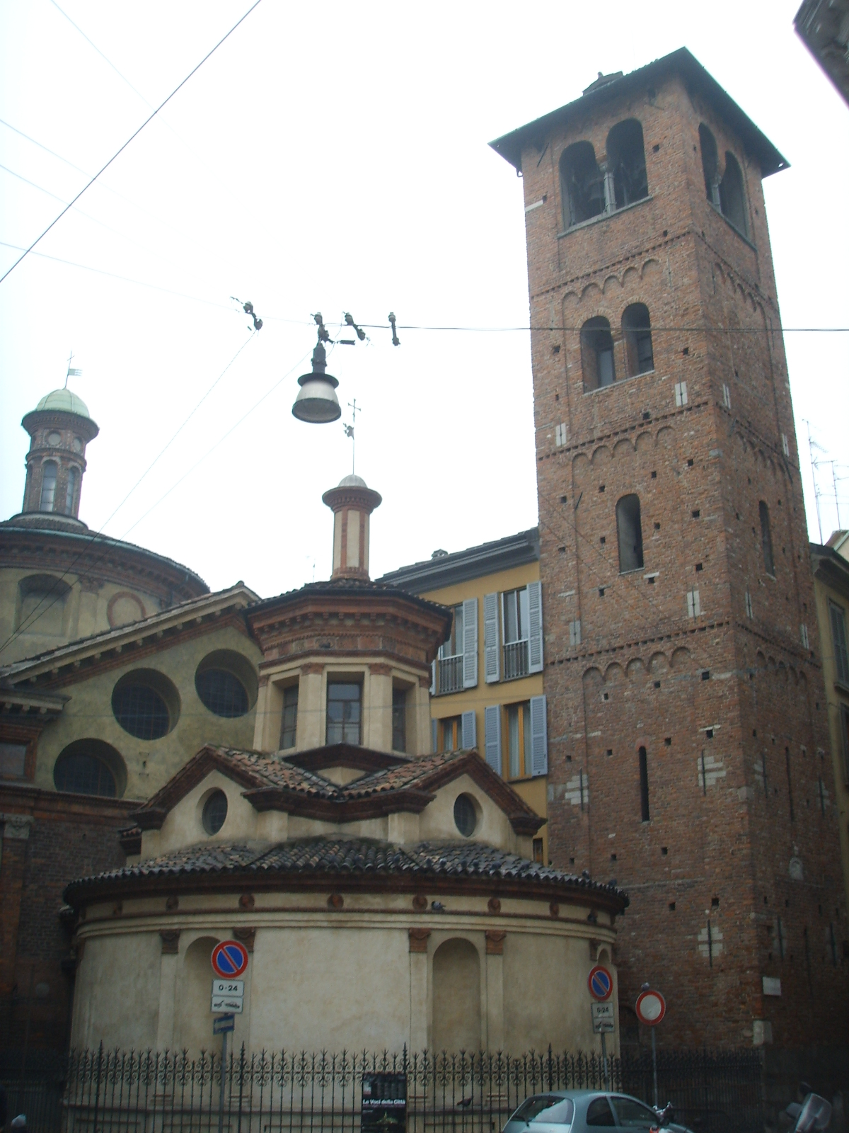 The Renaissance-style apse of the San Satiro chapel, and the 10th century church tower (among the oldest ones in Milan) of the church of Santa Maria presso san Satiro in Milan (Italy).